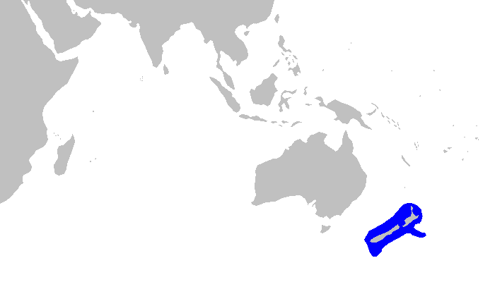 Distribution map for Cephaloscyllium isabellum